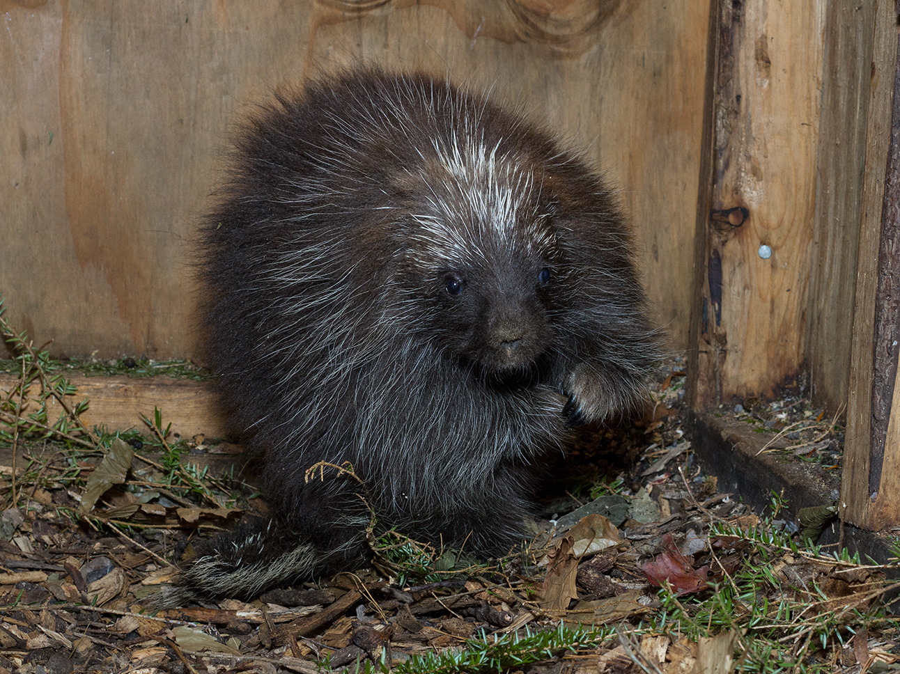 A juvenile male North American porcupine. Young males spend their first winters with their mothers.